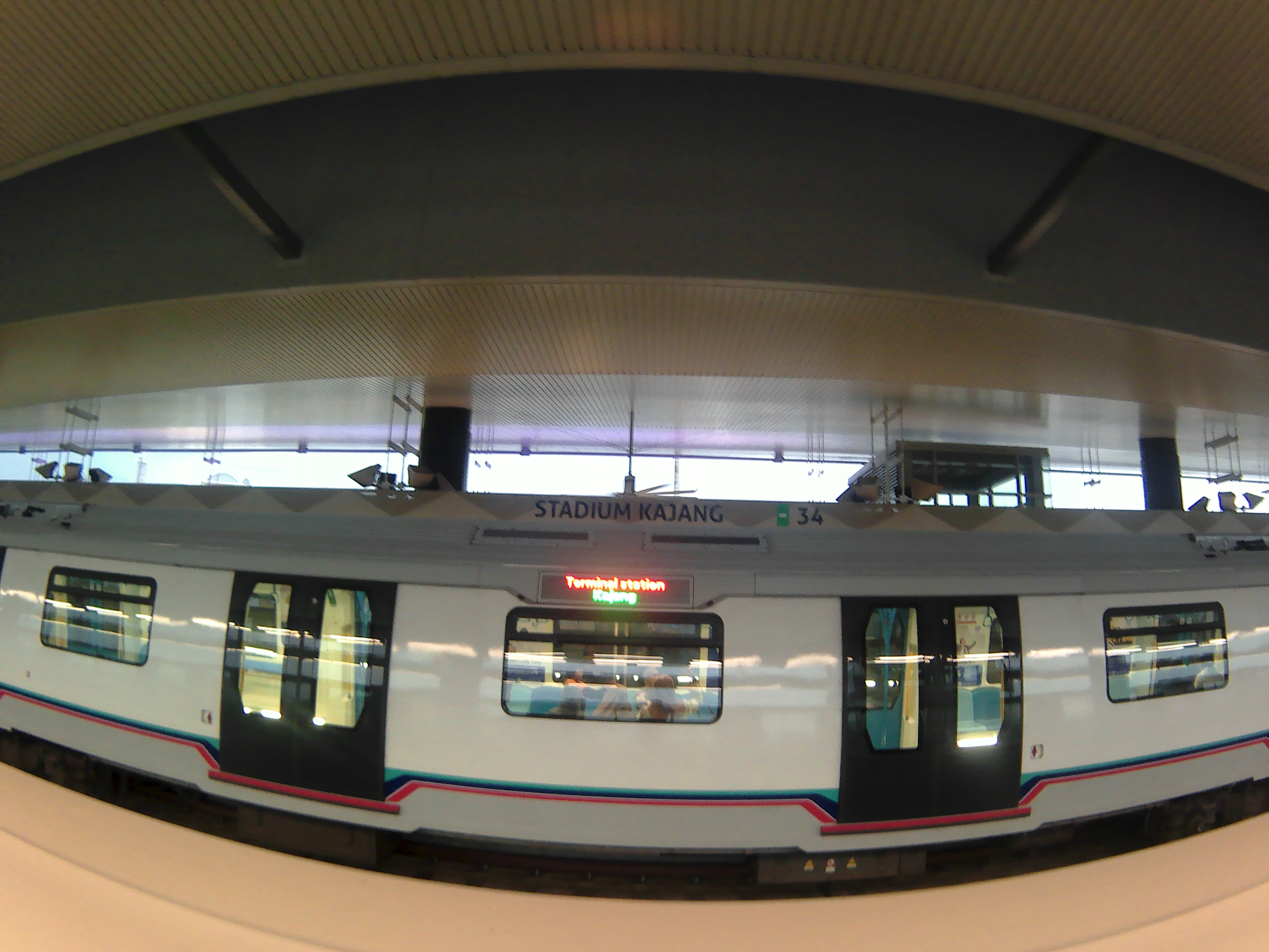 Stadium Kajang MRT station platform with train